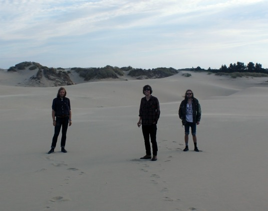 Fuzzy Cloaks on sand dunes on Oregon Coast